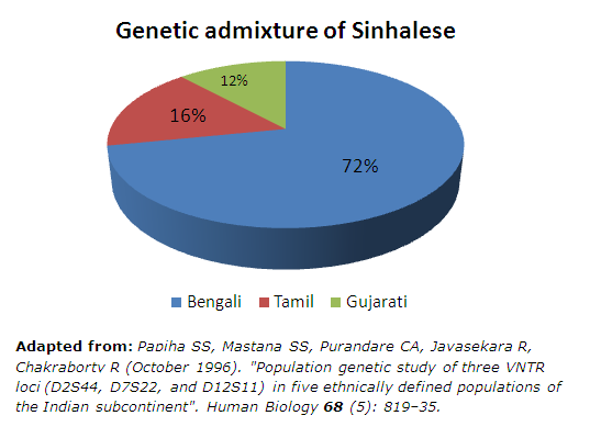 Genetic admixture of Sinhalese by Papiha Image created by me